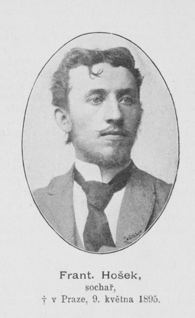 Portrait of František Hošek (1871-1895), Czech sculptor.